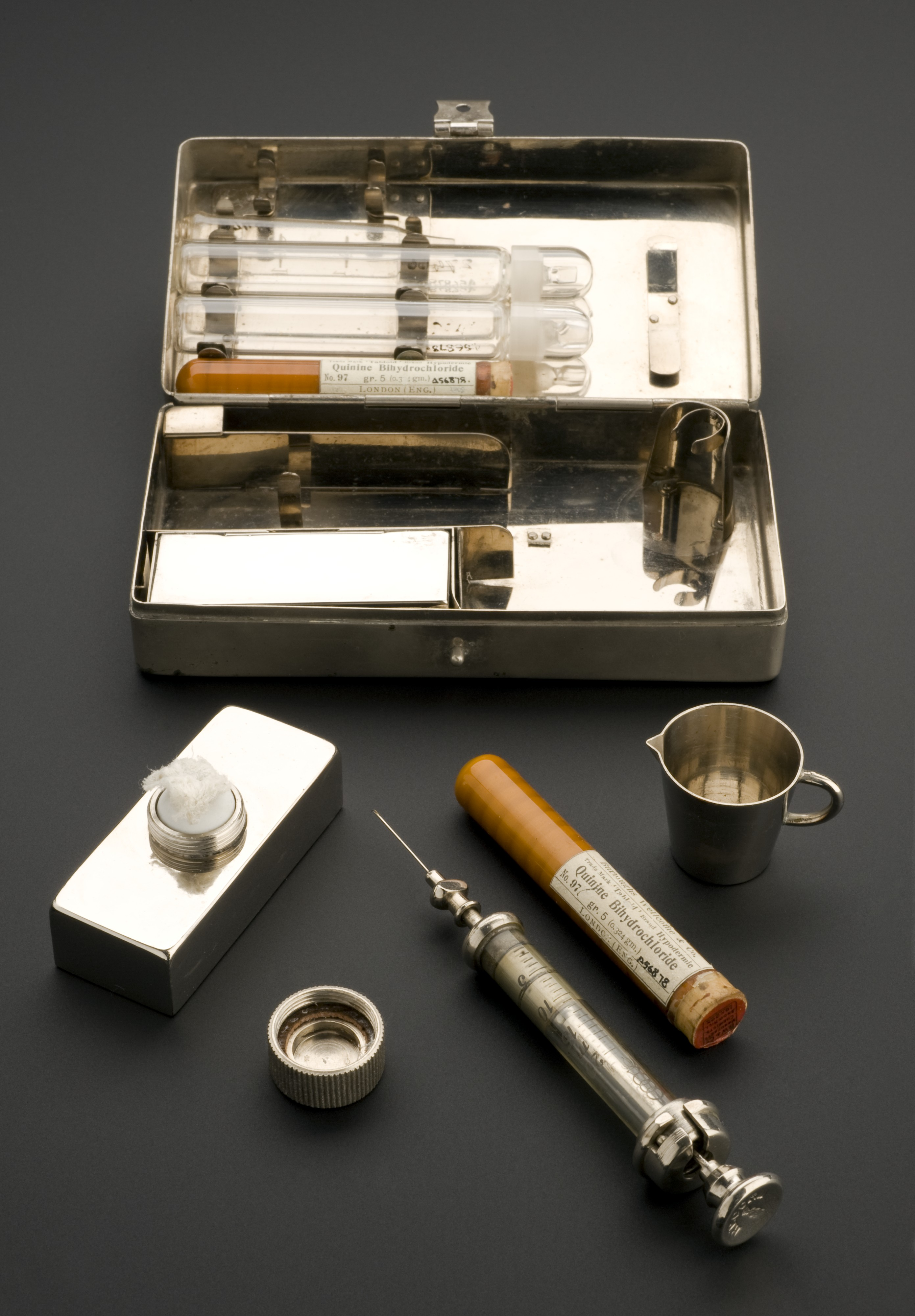 The hypodermic syringe was used to give injections of quinine hydrochloride into the body. Quinine is used as an anti-malaria treatment and can also be given in tablet form. The kit contains a hypodermic syringe, paraffin-coated needles – to protect the needles during transportation – and twenty tablets and test tubes to make up solutions for injection. Sold by Burroughs, Wellcome & Co, the kit would have been used by those traveling to areas where malaria was common, such as Africa. maker: Burroughs Wellcome and Company Place made: Berlin, Berlin state, Germany Medical Photographic Library Keywords: Quinine; hypodermic syringe; Malaria